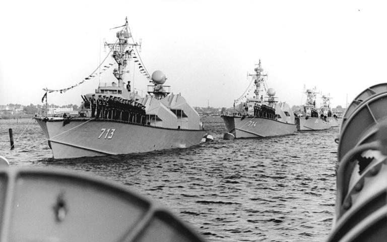 Ships of the GDRs navy parade in Rostock harbor during the celebrations in honor of the 25th birthday of the GDR in 1974. 2 soviet made Project 205 (NATO reporting name: "OSA-class") missileboats (713 Paul Eisenschneider and 714 Fritz Gast) can be seen in the foreground and 2 soviet made Project 206 (NATO reporting name: "Shershen-class") torpedoboats in the back